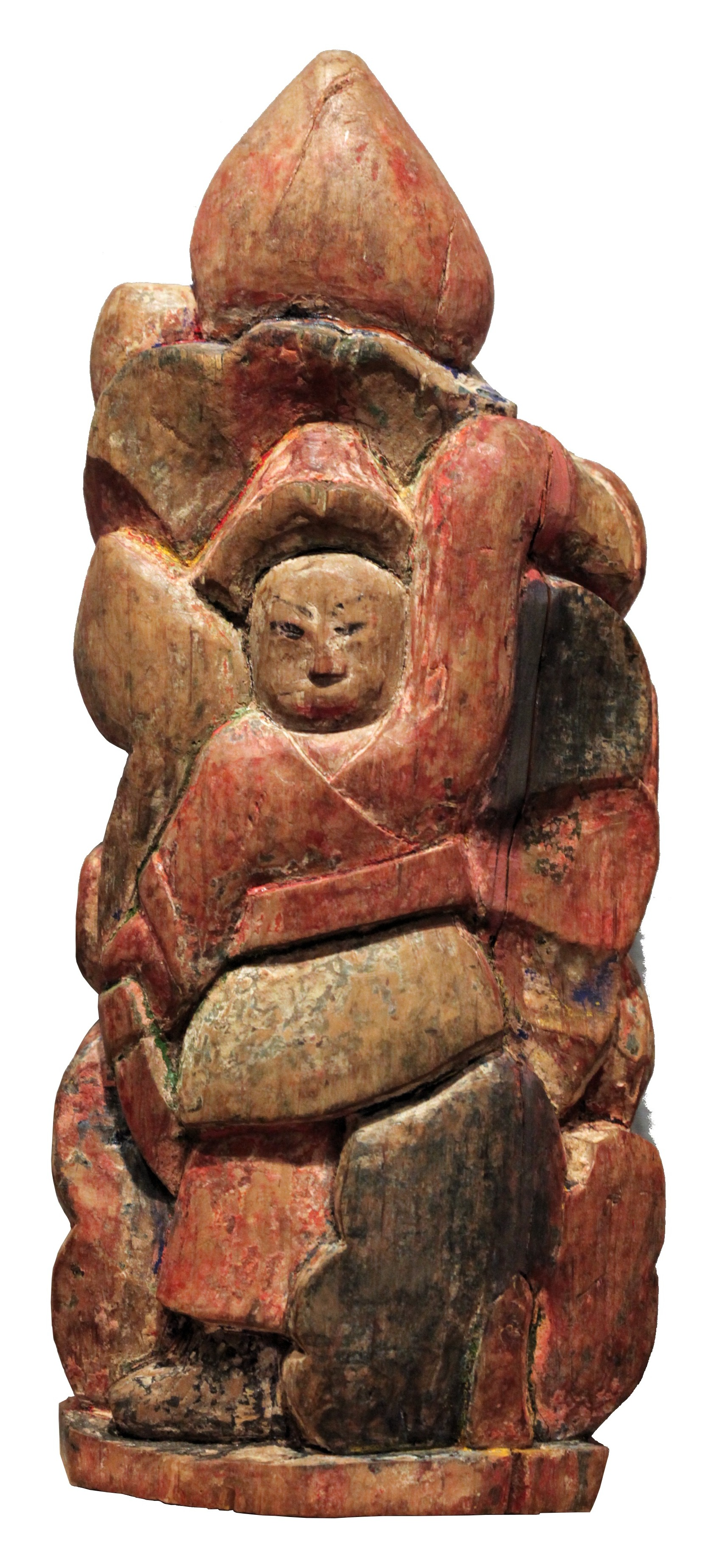 Kkoktu figure of an Entertainer. Korea, 18th century. On display at the Spurlock Museum, Urbana-Champaign, Illinois, USA.